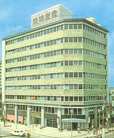 Ryukyus Life Insurance Company Building circa 1970